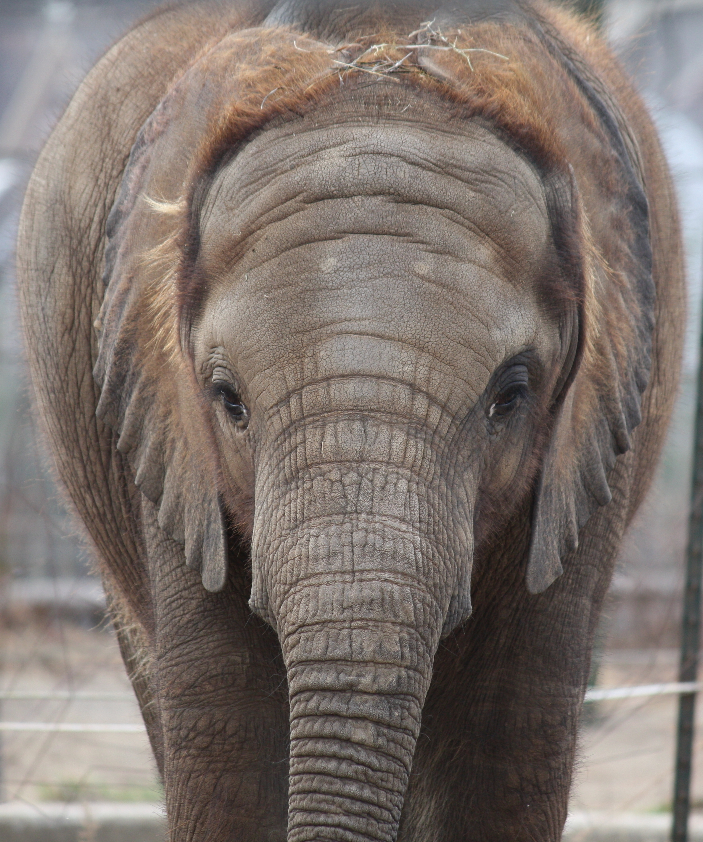 Baby Male African Elephant (Loxodonta africana) "Scotty" at the Louisville Zoo.. He is nearly 2 years old in this picture.